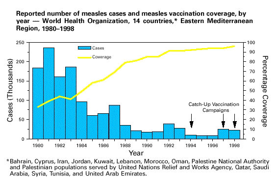 ID#: 1564. Eastern Mediterranean measles cases and vaccination coverage, 1980-1998. Line and bar graph showing reported number of measles cases and measles vaccination coverage, by year--World Health Organization, 14 countries, Eastern Mediterranean region, 1980-1998.